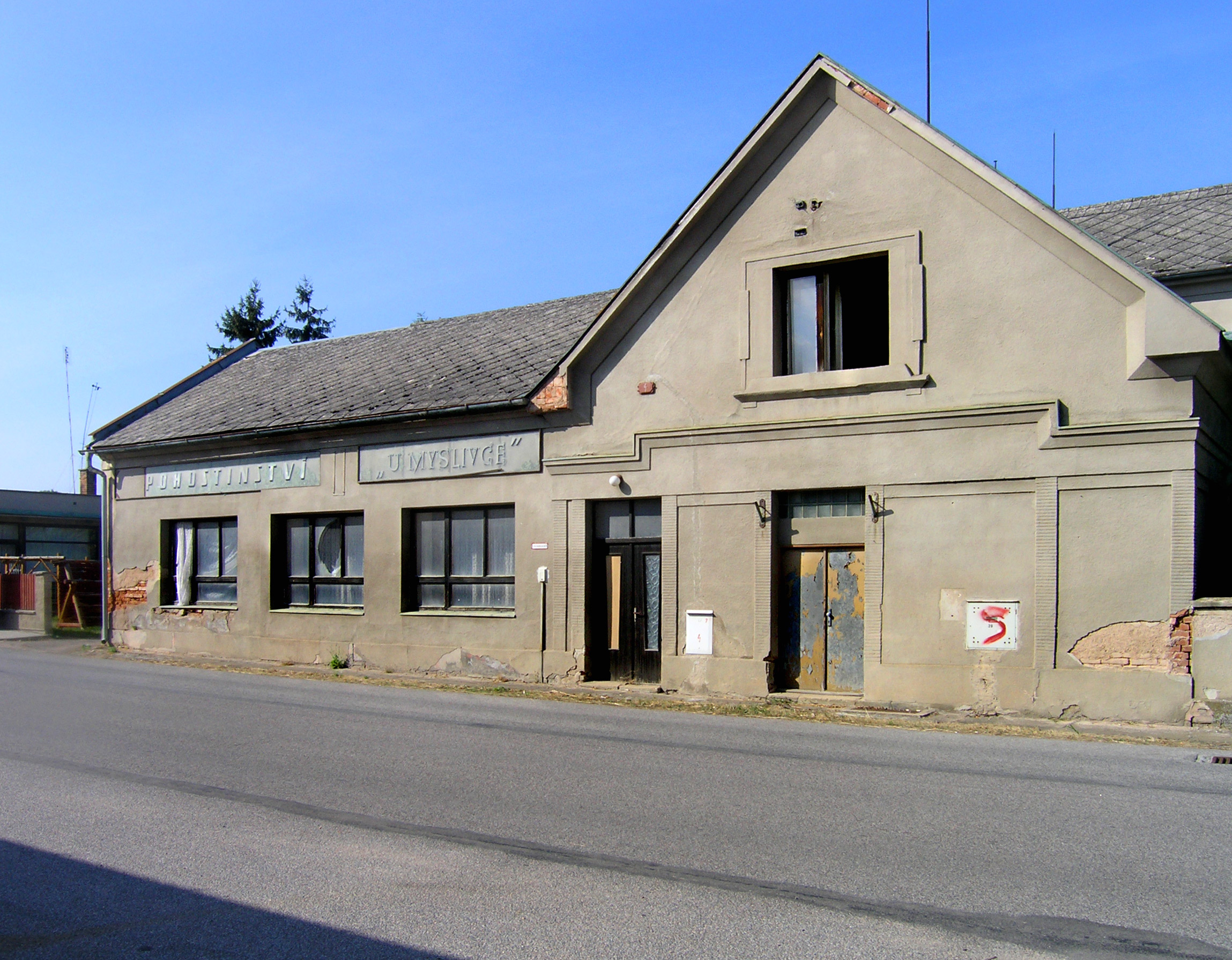 Old restaurant in Hřibsko, part of Stěžery village, Czech Republic